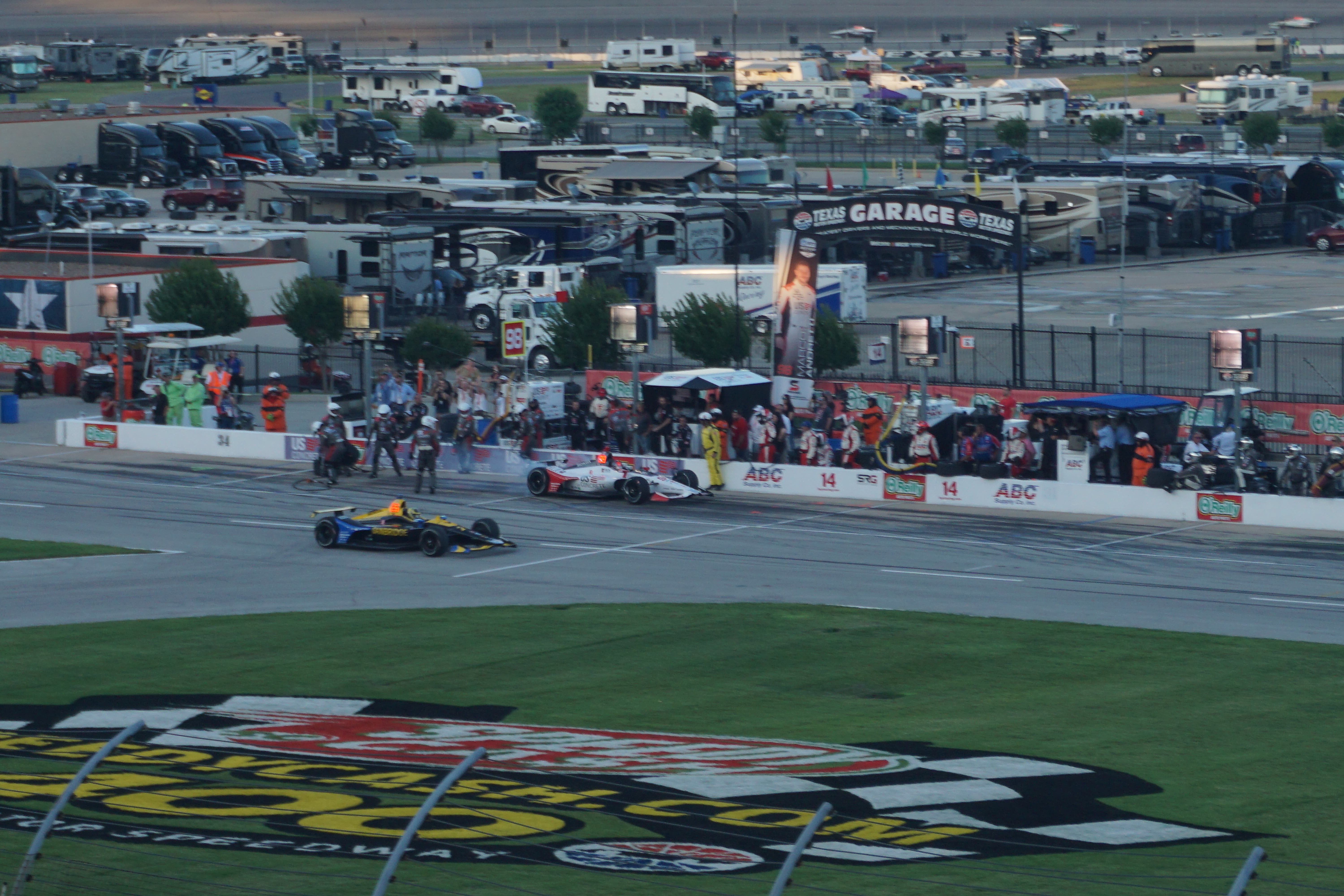 Zach Veach and Marco Andretti making pit stops during the 2019 DXC Technology 600 at Texas Motor Speedway in Fort Worth, Texas (United States).